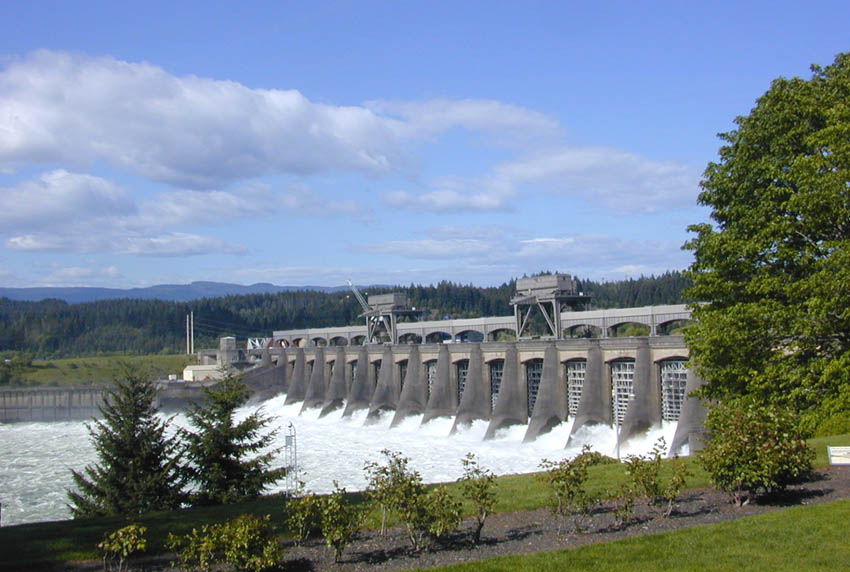 South structure of Bonneville Dam on the lower Columbia River, Washington, USA